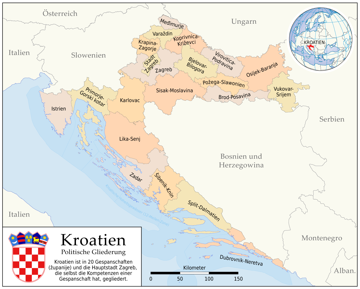 Map of the administrative divisions of Croatia on županije level